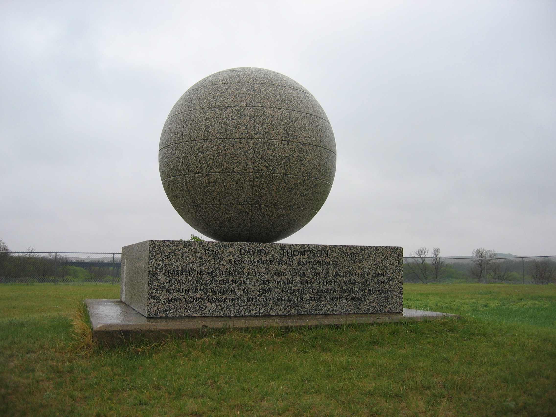 Personally photographed by the undersigned, May 5, 2007Elcajonfarms (talk) 03:14, 12 December 2007 (UTC)